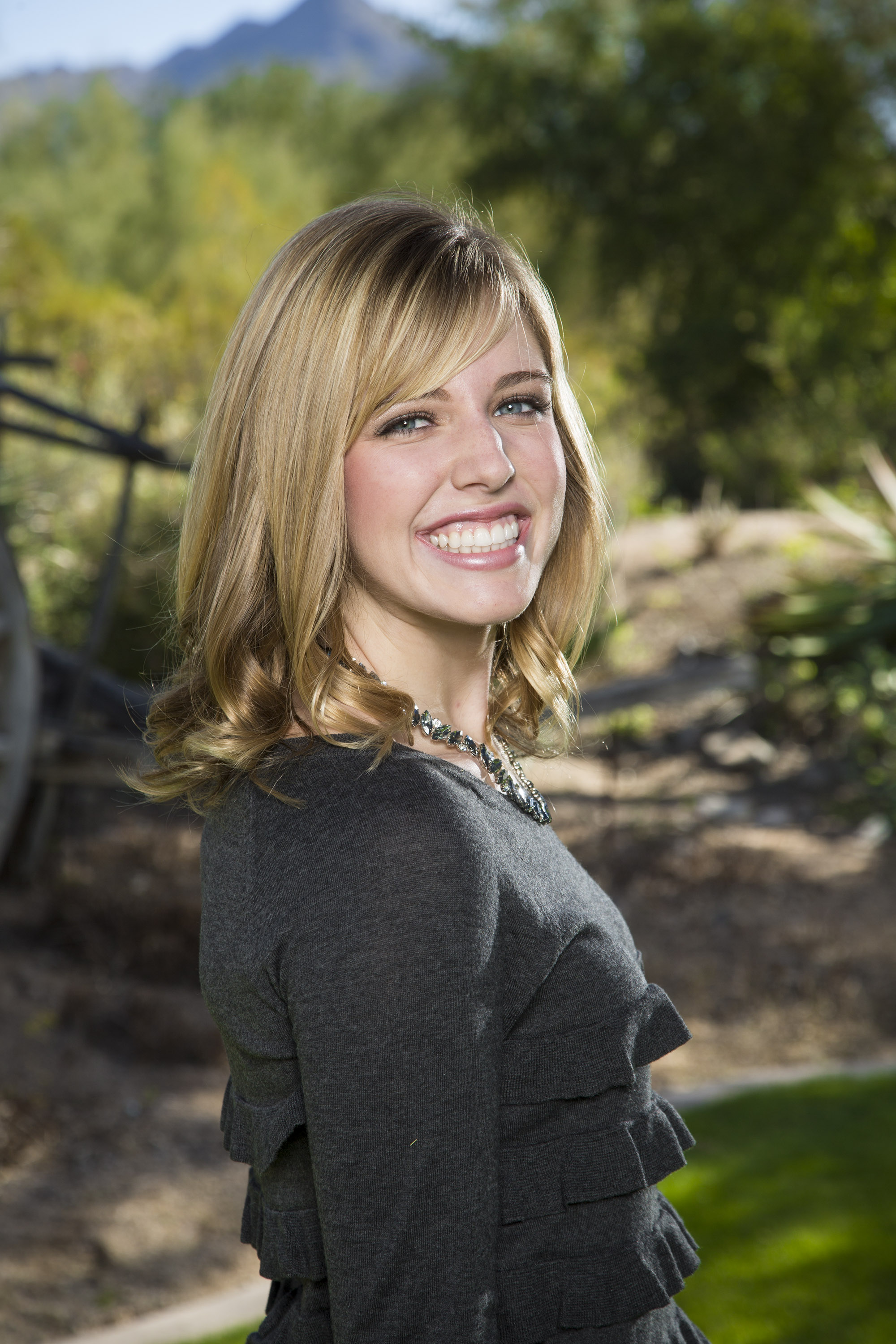 Headshot for high school senior photos